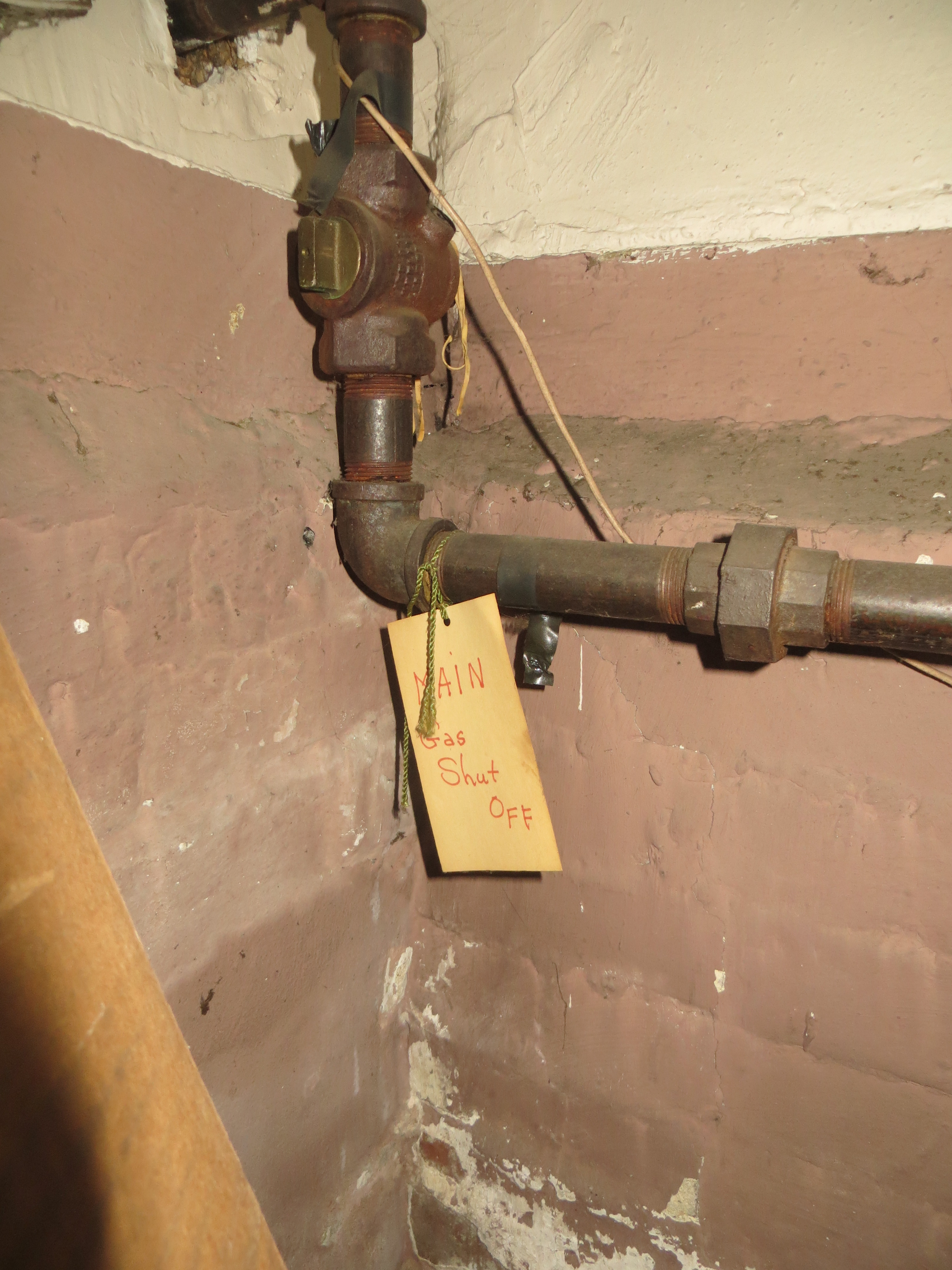 Marked gas shutoff